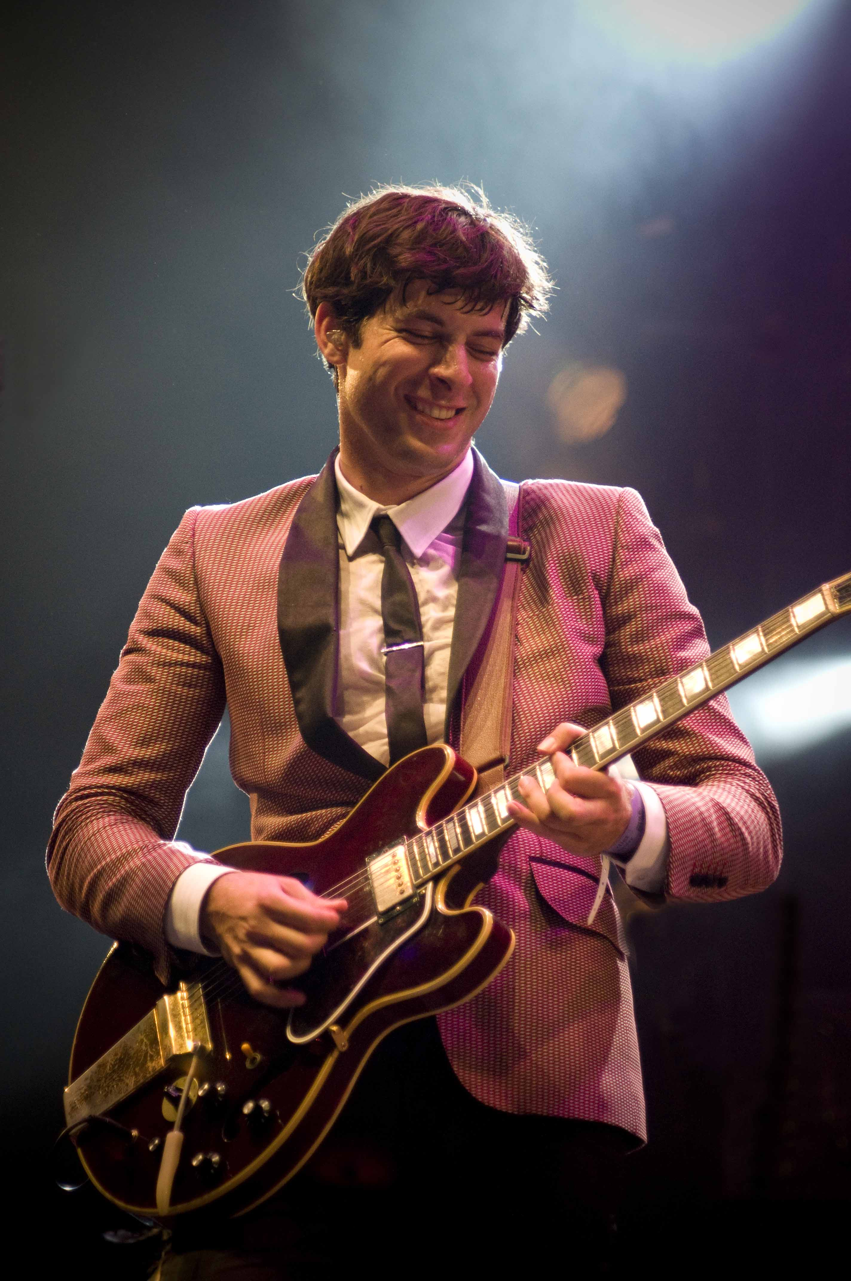 Mark Ronson Northsea Jazzfestival 2008